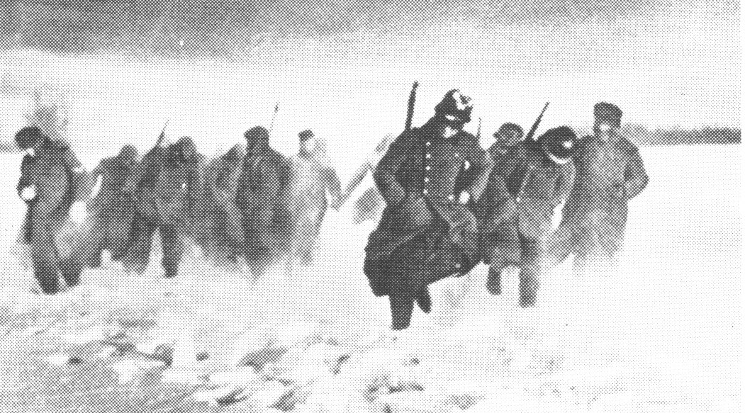 German army retreat from Moscow